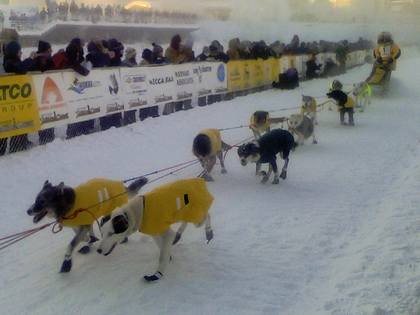 Didier Moggia leaves the starting gate as the first musher to begin the 2008 Yukon Quest in Fairbanks, Alaska.